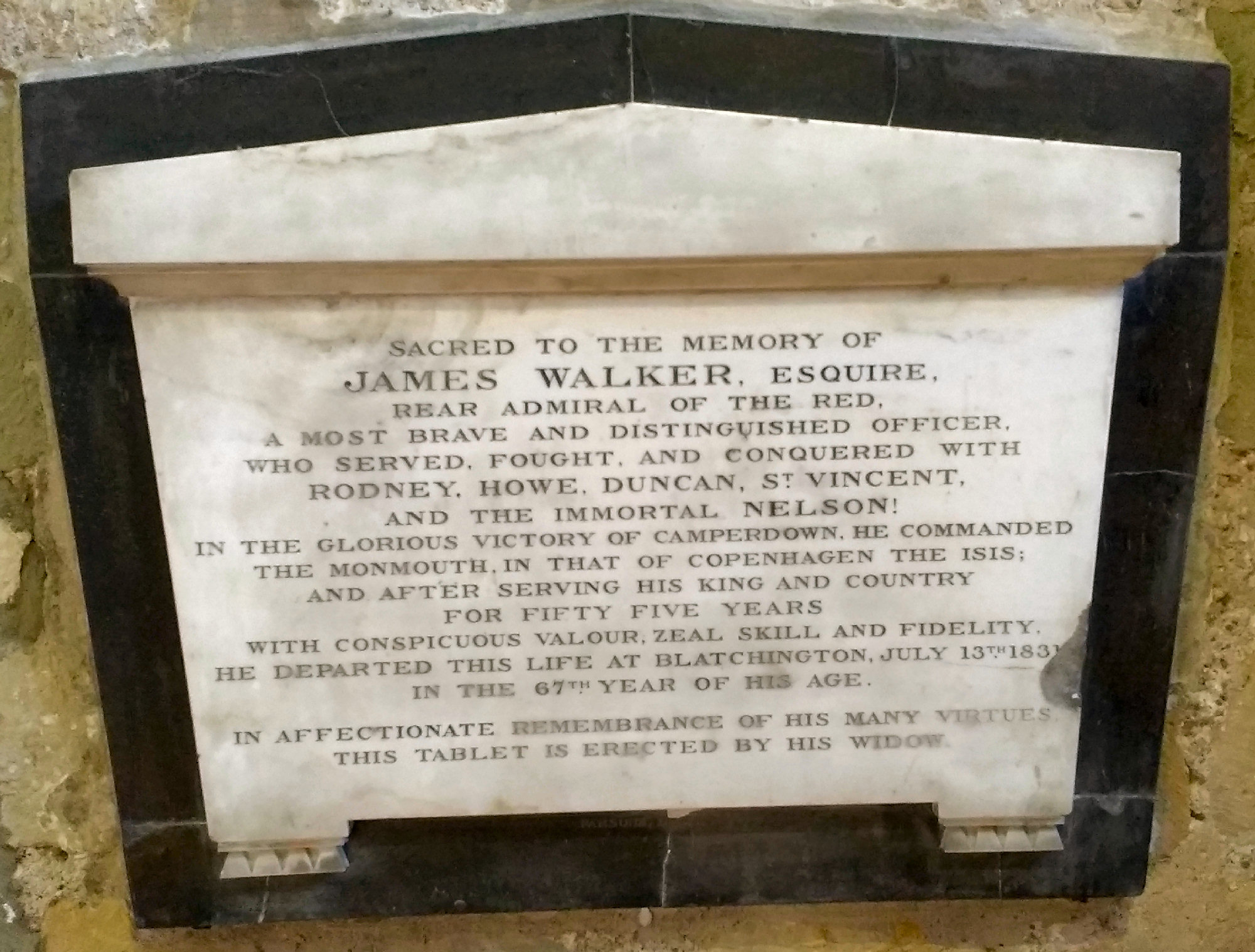 St Leonard's Church, Seaford, James Walker monument